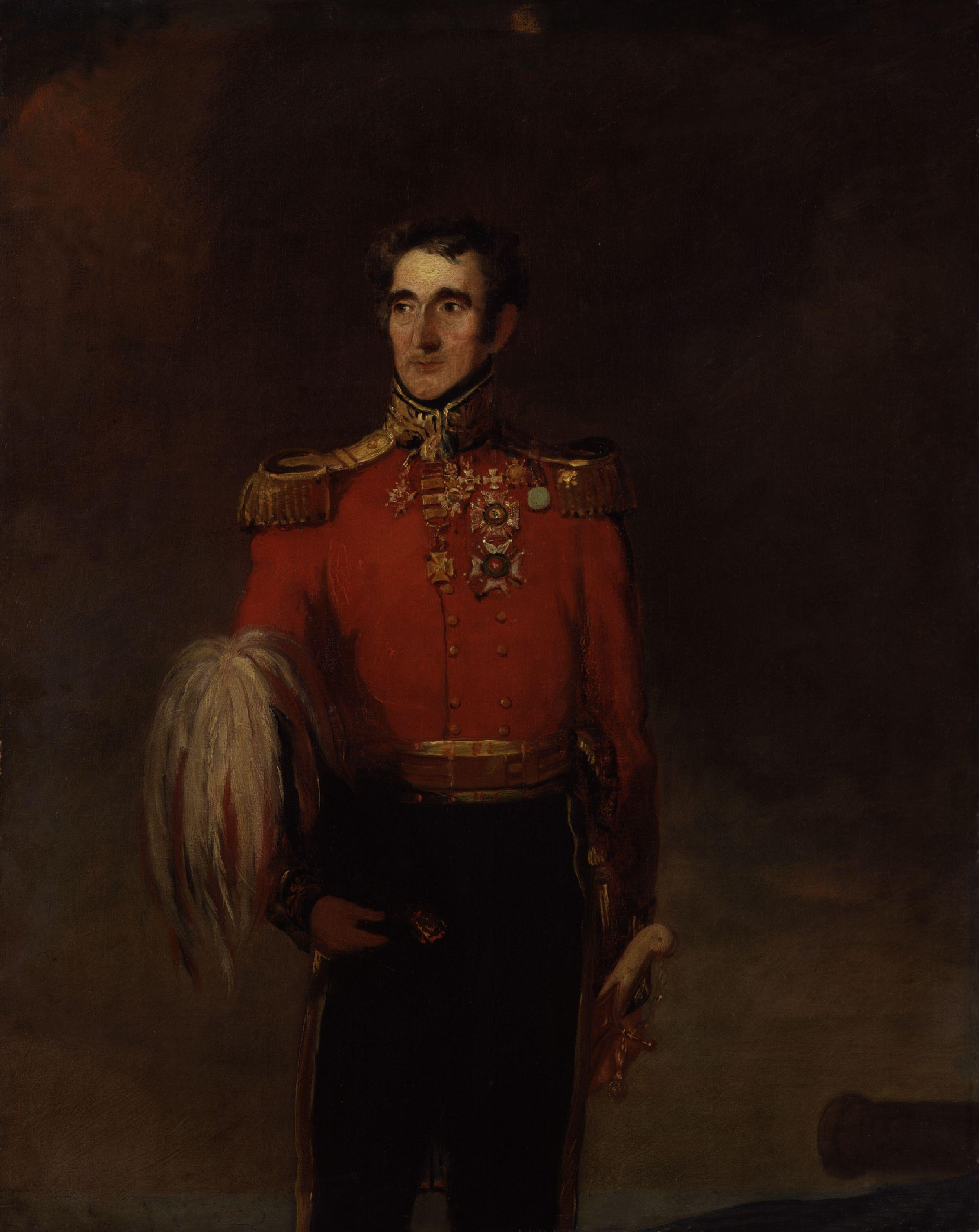 All images in this batch have been confirmed as author died before 1939 according to the official death date listed by the NPG.